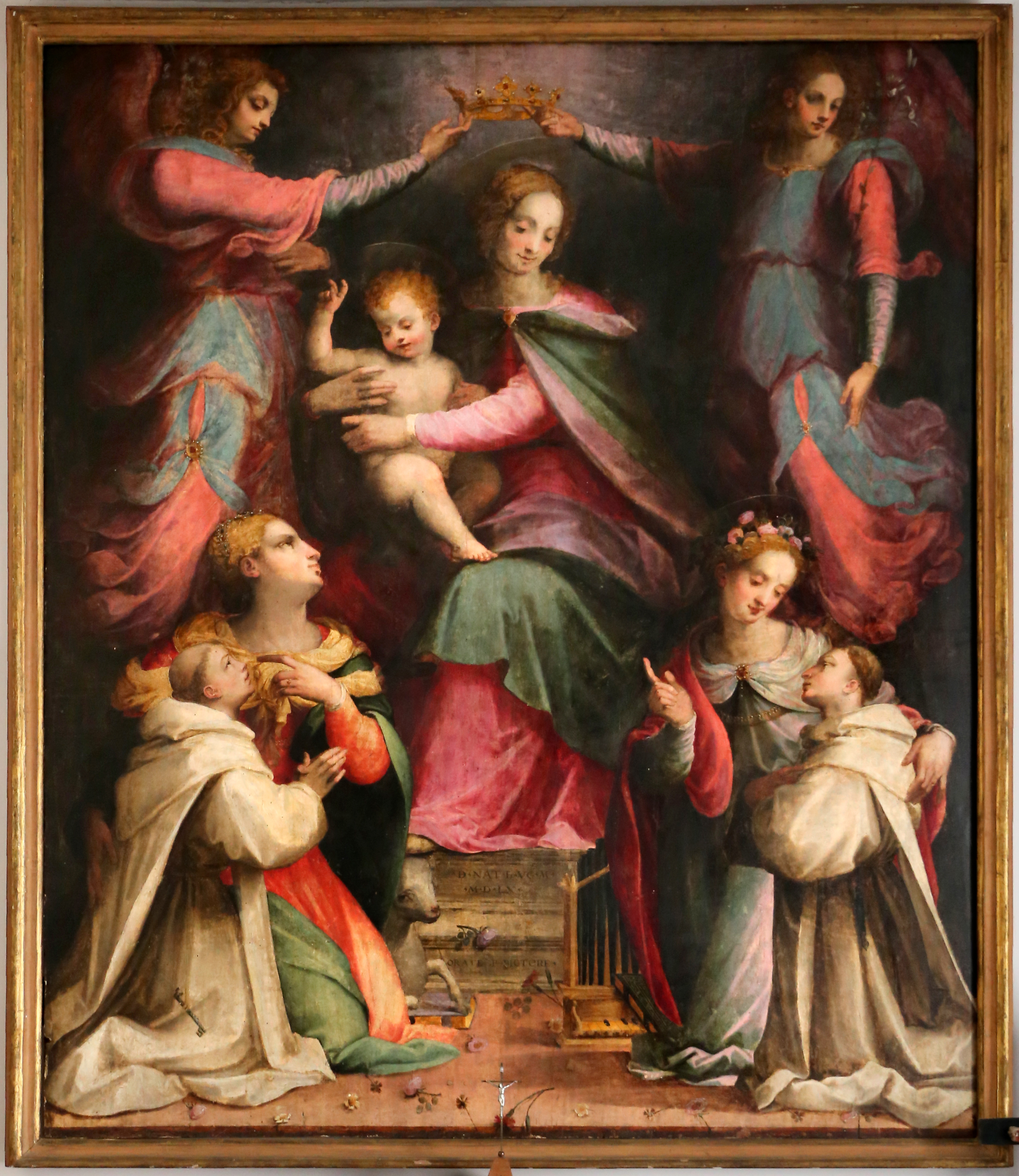 Santa Maria Novella - Convent